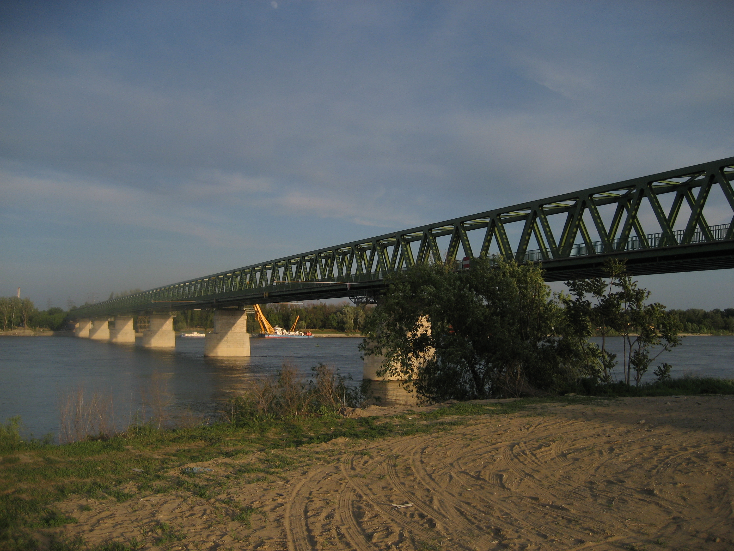 Újpesti vasúti híd ("Ujpest railway bridge", Budapest, Hungary)